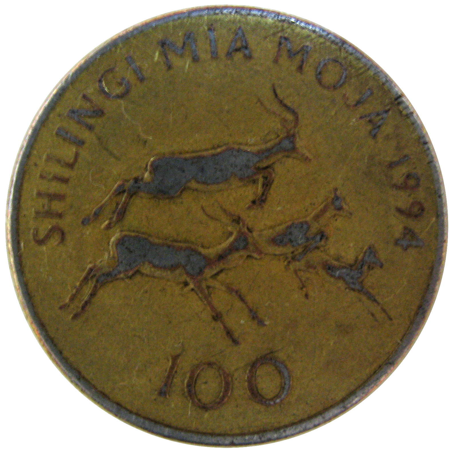 100 Tanzanian shillings coin, front, displaying antelopes